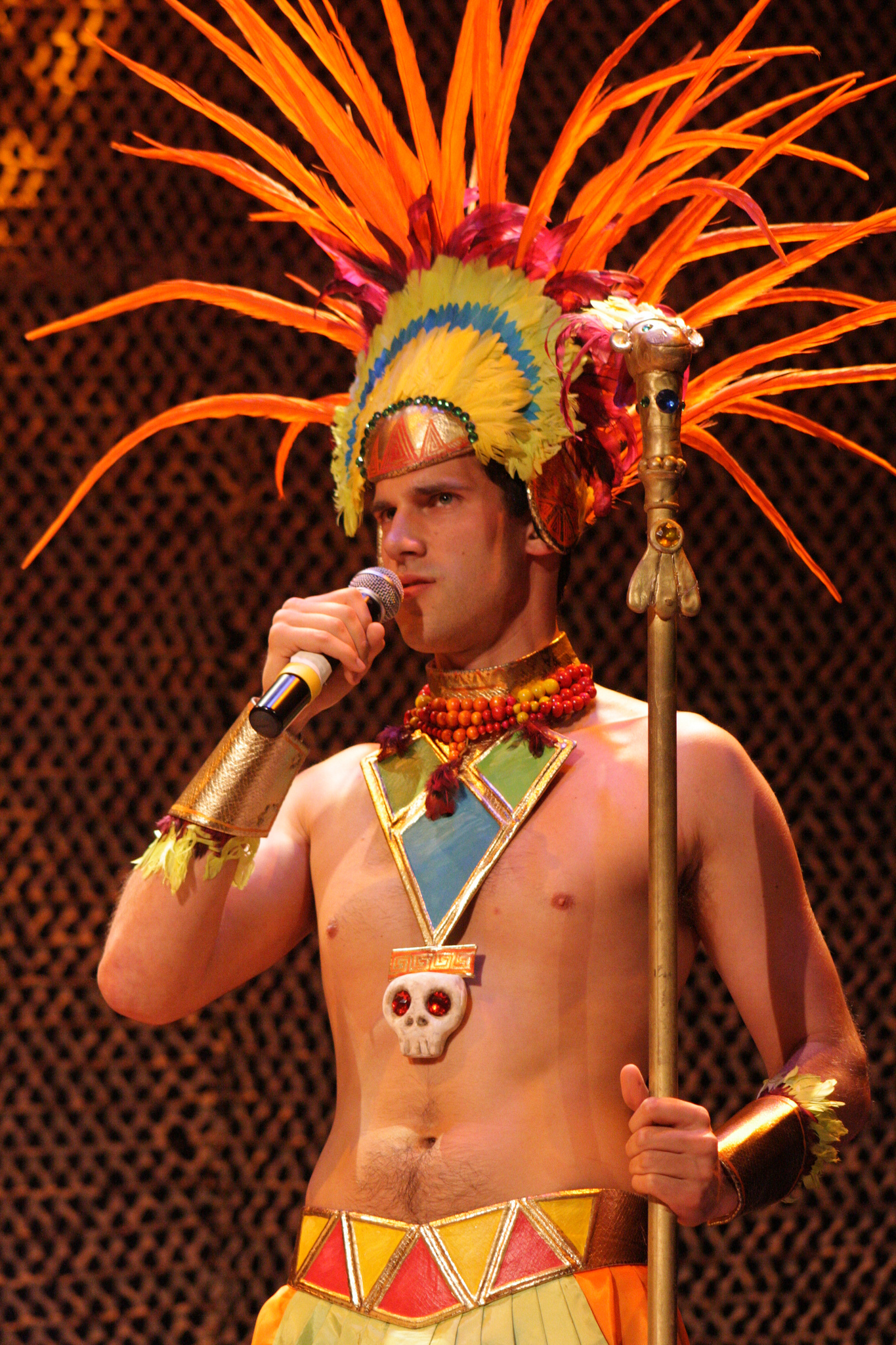 Photograph depicting a scene from the Apocalyptour concert by StarKid Productions - at Michigan Theater, Ann Arbor, MI. Ma'au Guurit - the Mayan God of Chaos and Death - awakens, and announces his plans to destroy the world.Depicted person: Jim Povolo